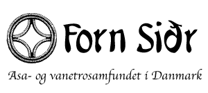 Logo of the "Forn Siðr — Ásatrú and Vanatrú Association in Denmark" (Forn Siðr — Asa- og Vanetrosamfundet i Danmark), a local organisation of Nordic Heathenry.